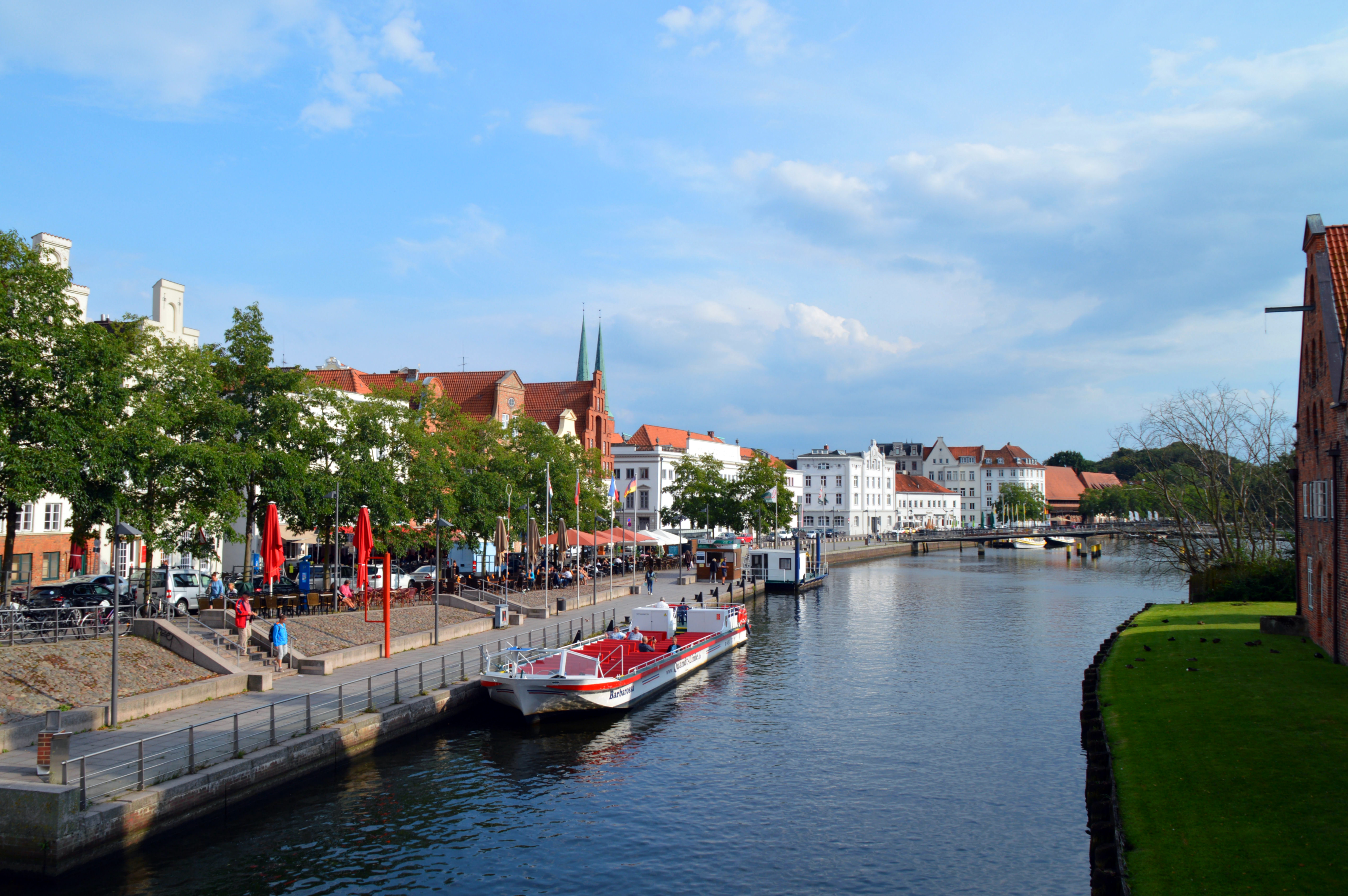 Lübeck River Trave Schleswig-Holstein Germany